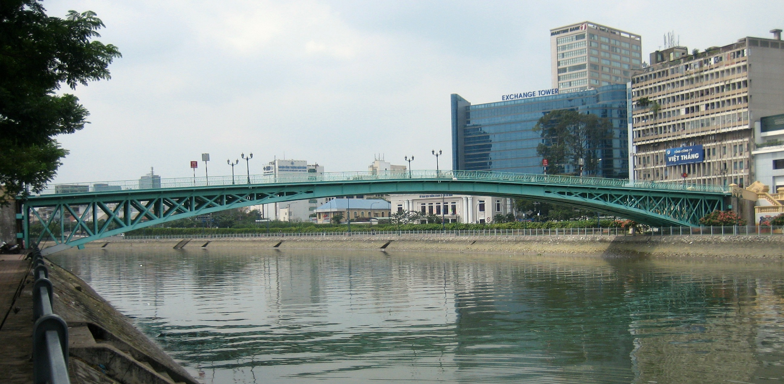 Rainbow Bridge. This bridge was designed and built by Gustave Eiffel's company in 1882. It spans the Bến Nghé Creek.